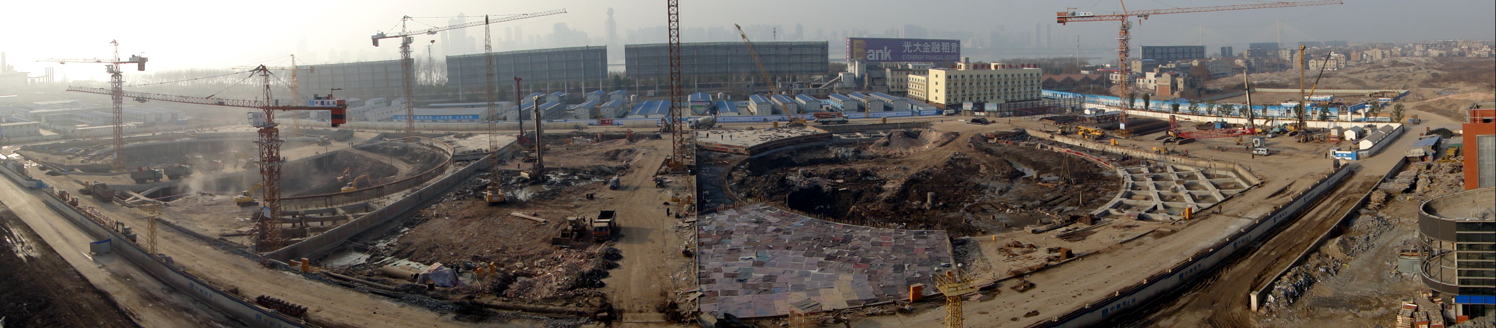 Construction site of Wuhan Greenland Center